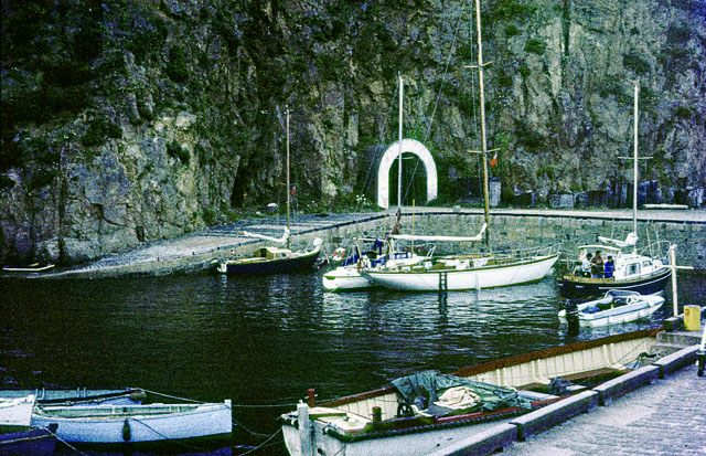 Creux harbour, Sark, at high tide. This sheltered harbour is used by local boats.